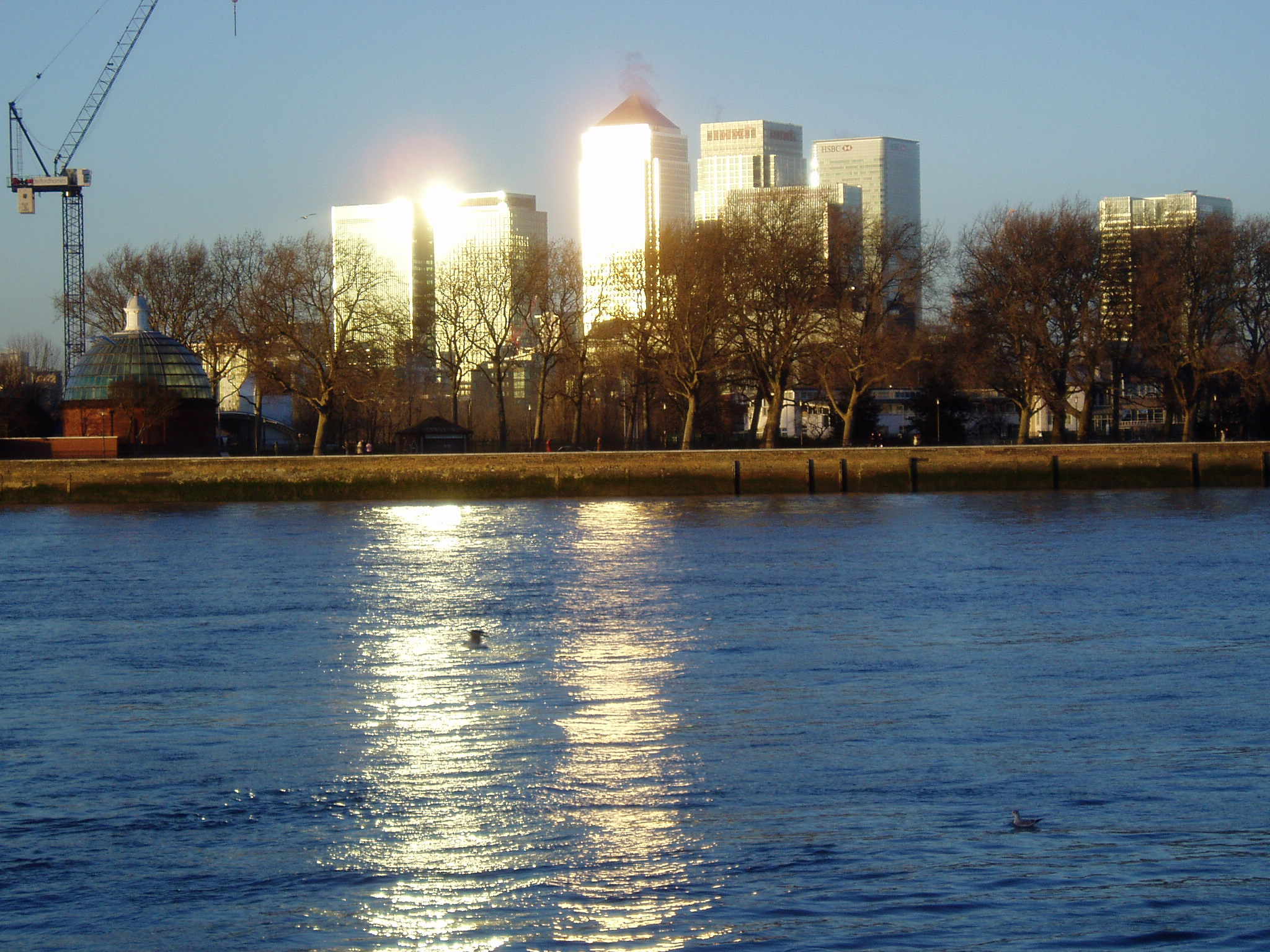 Canary Wharf from Greenwich